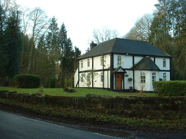 Woodhouse lodge Woodhouse is a large house in the adjacent square - this substantial house is on one of the entrances to the park around the 'big house', so I assume it is a lodge for the estate.